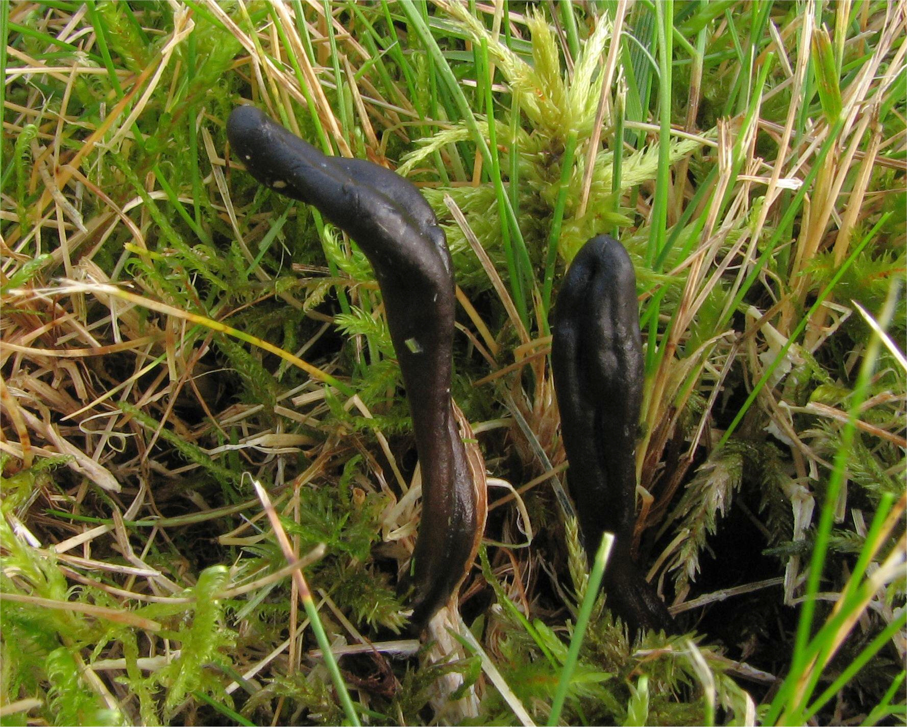 Geoglossum glutinosum Pers. Image location: Hörnefors, Västerbotten, Sweden Based on microscopic features: slimy stem with paraphyses For more information about this, see the observation page at Mushroom Observer.